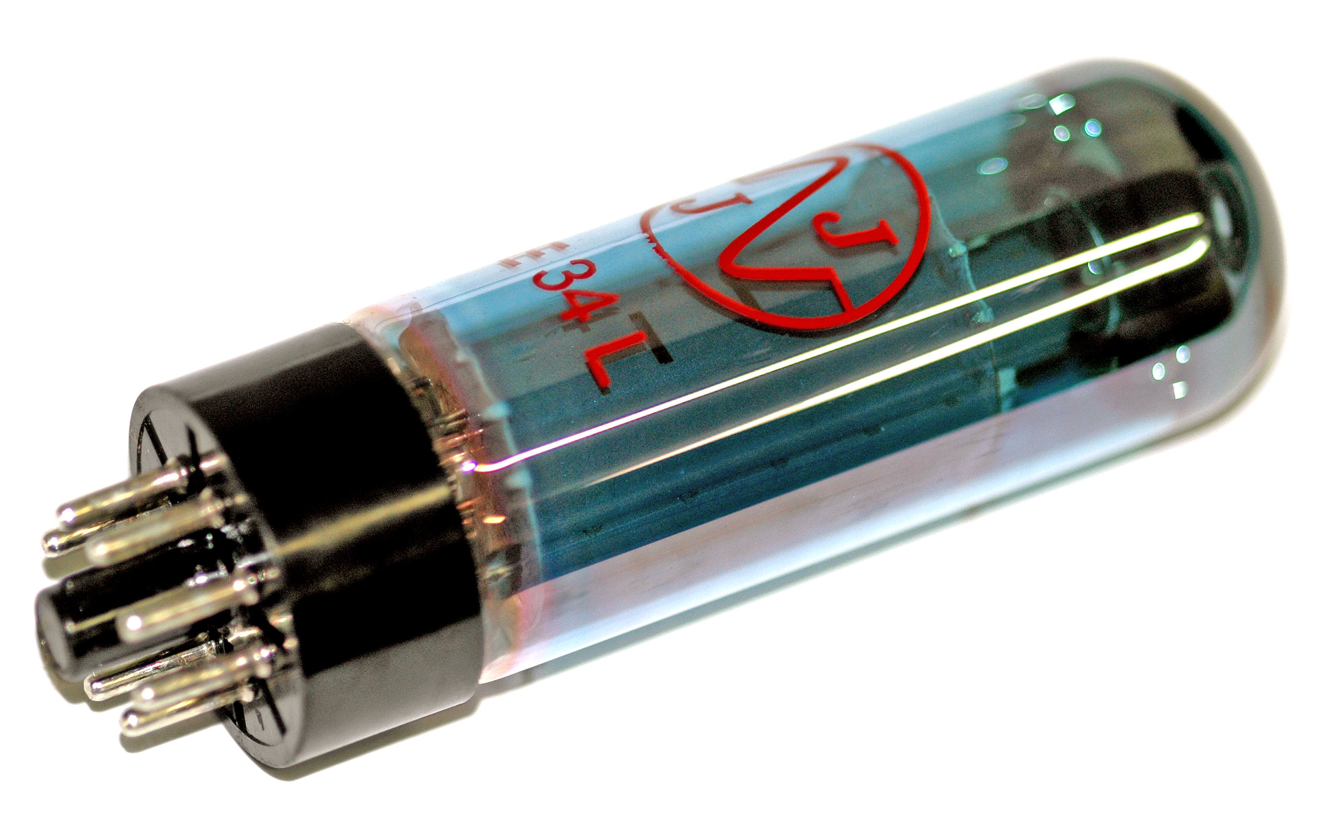 A special edition of the E34L made by JJ Electronics having the bottle made of blue glass.